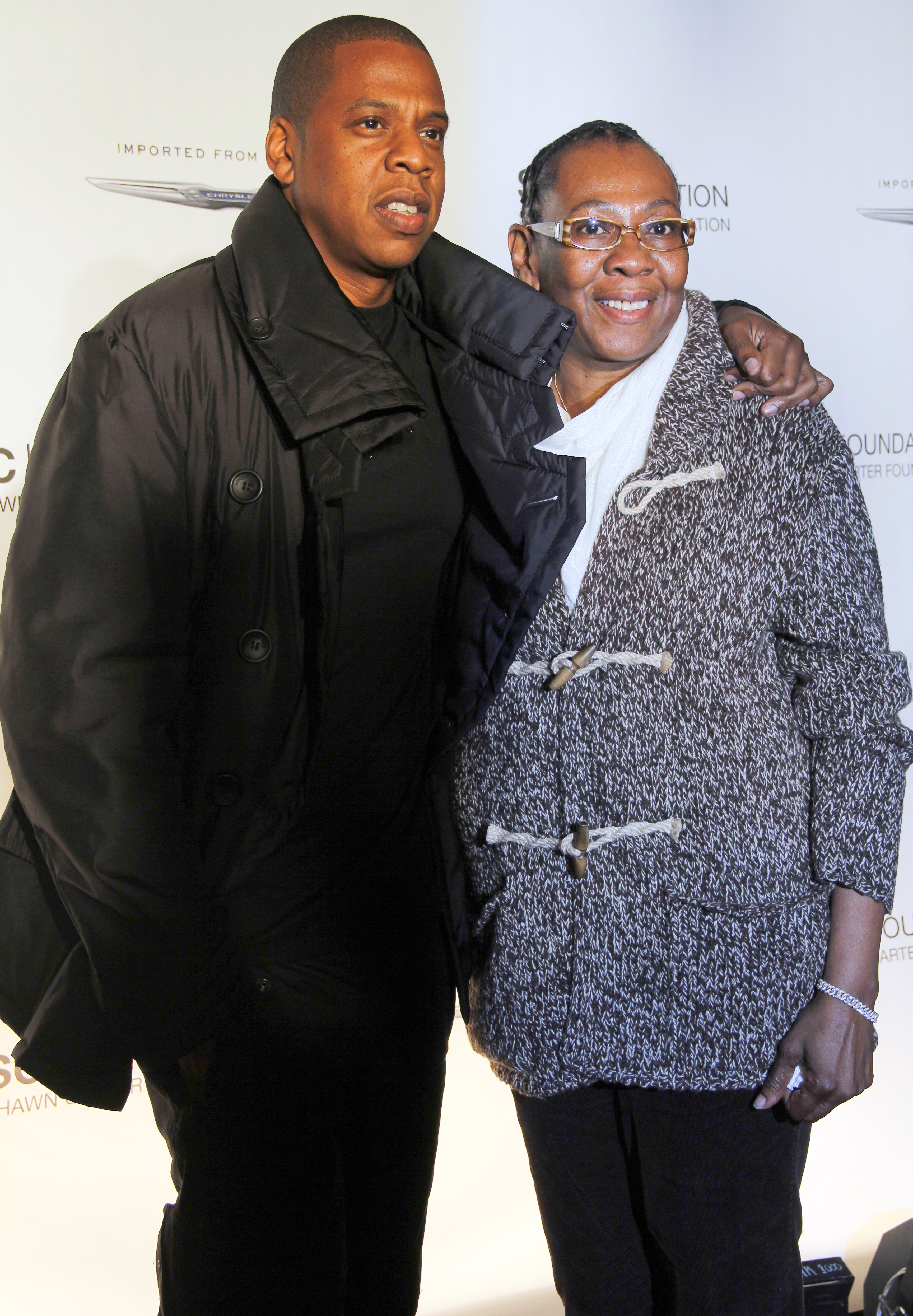 Shawn 'Jay-Z' Carter Foundation Carnival 2011.